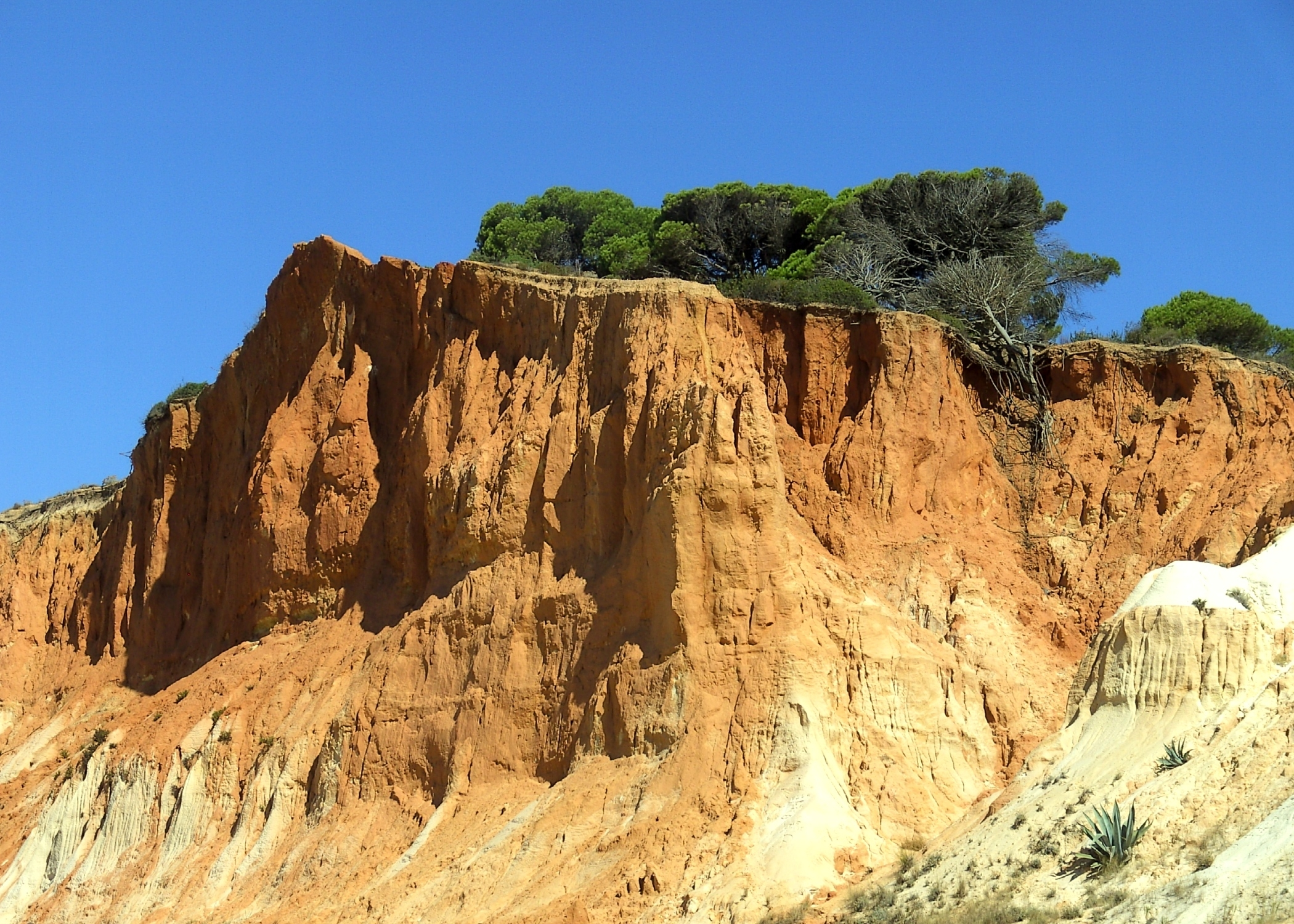 The coast of Albufeira in Portugal.